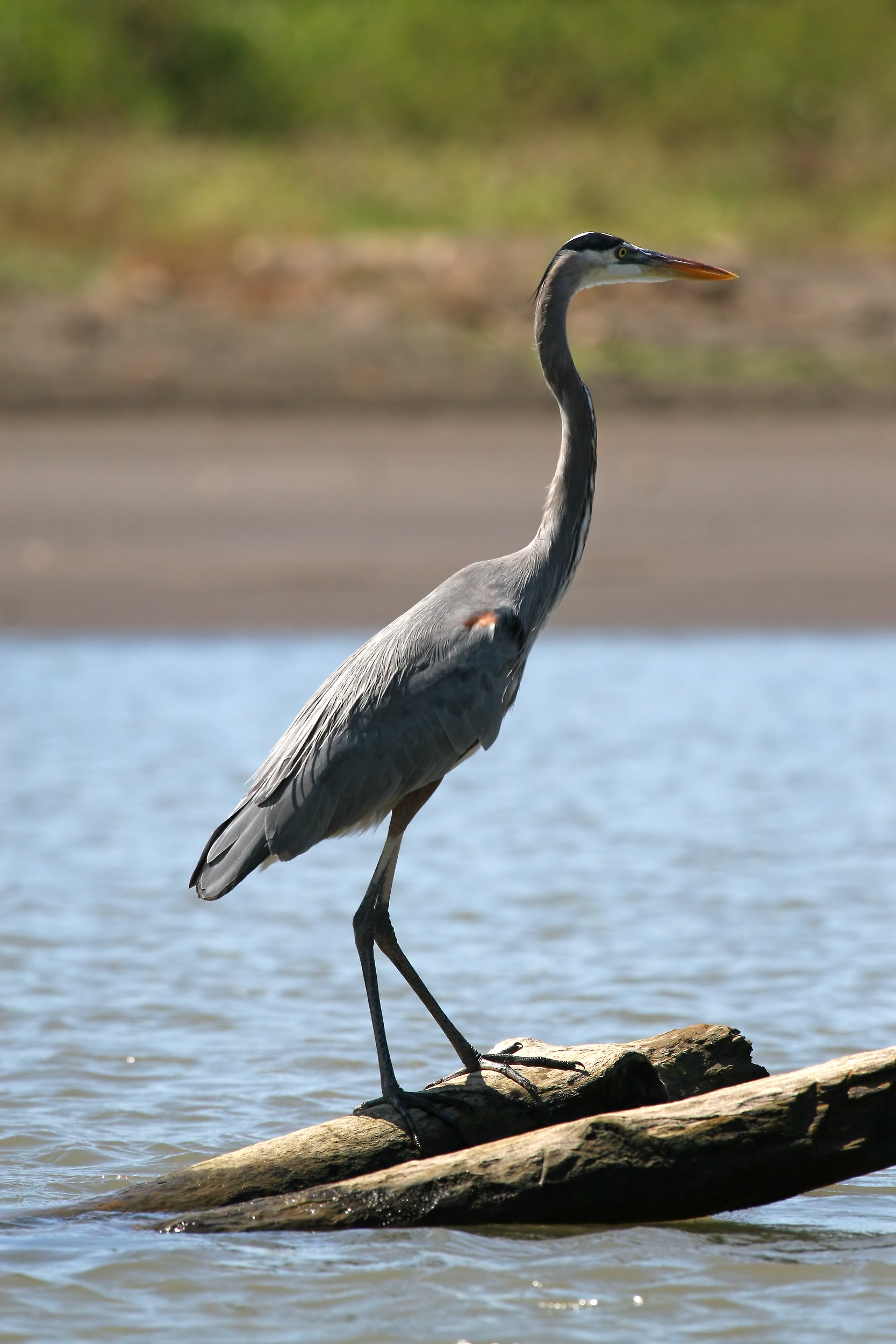 Great Blue Heron, picture taken in Tortuguero national park, Costa Rica